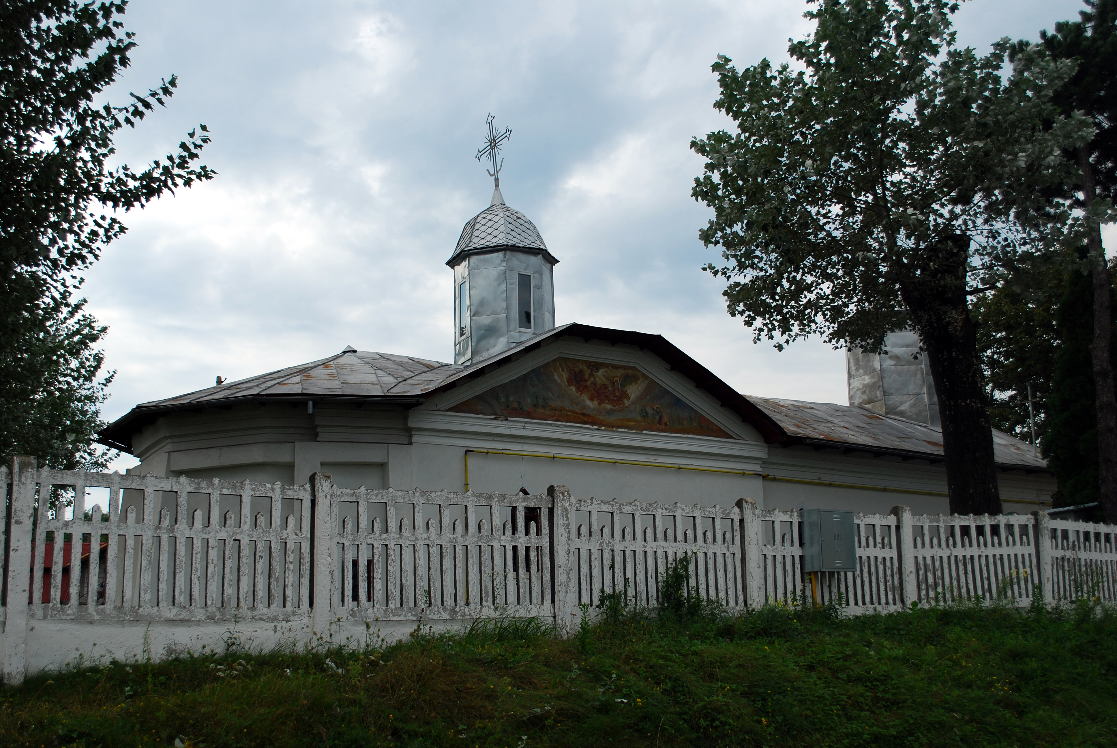 Saint Parascheva's church in Ungureni, Dragomirești Commune, Dâmbovița County, RomaniaRomână: Biserica Cuvioasa Paraschiva din Ungureni, comuna Dragomirești, județul Dâmbovița, România